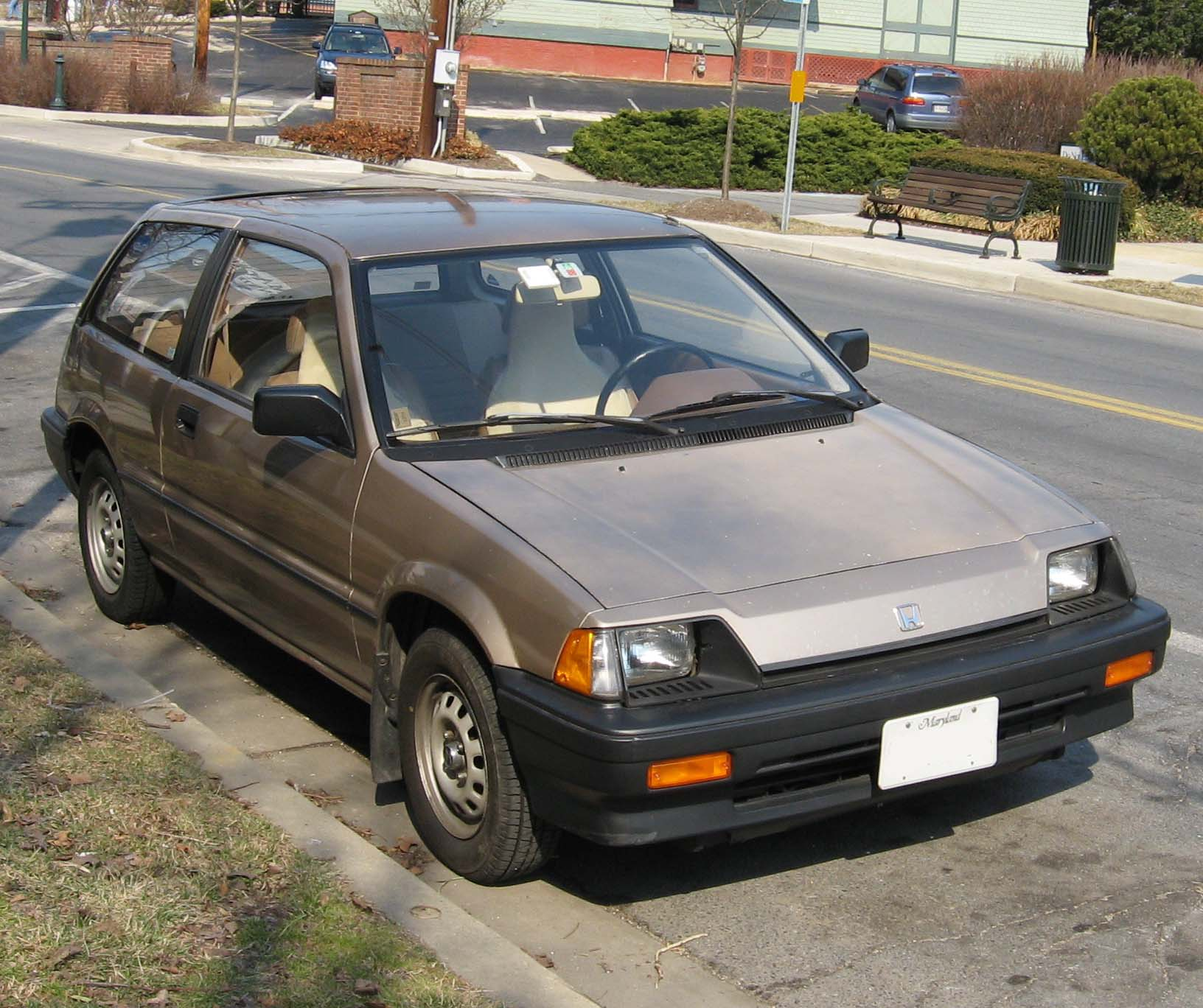 1984-1985 Honda Civic photographed in USA.